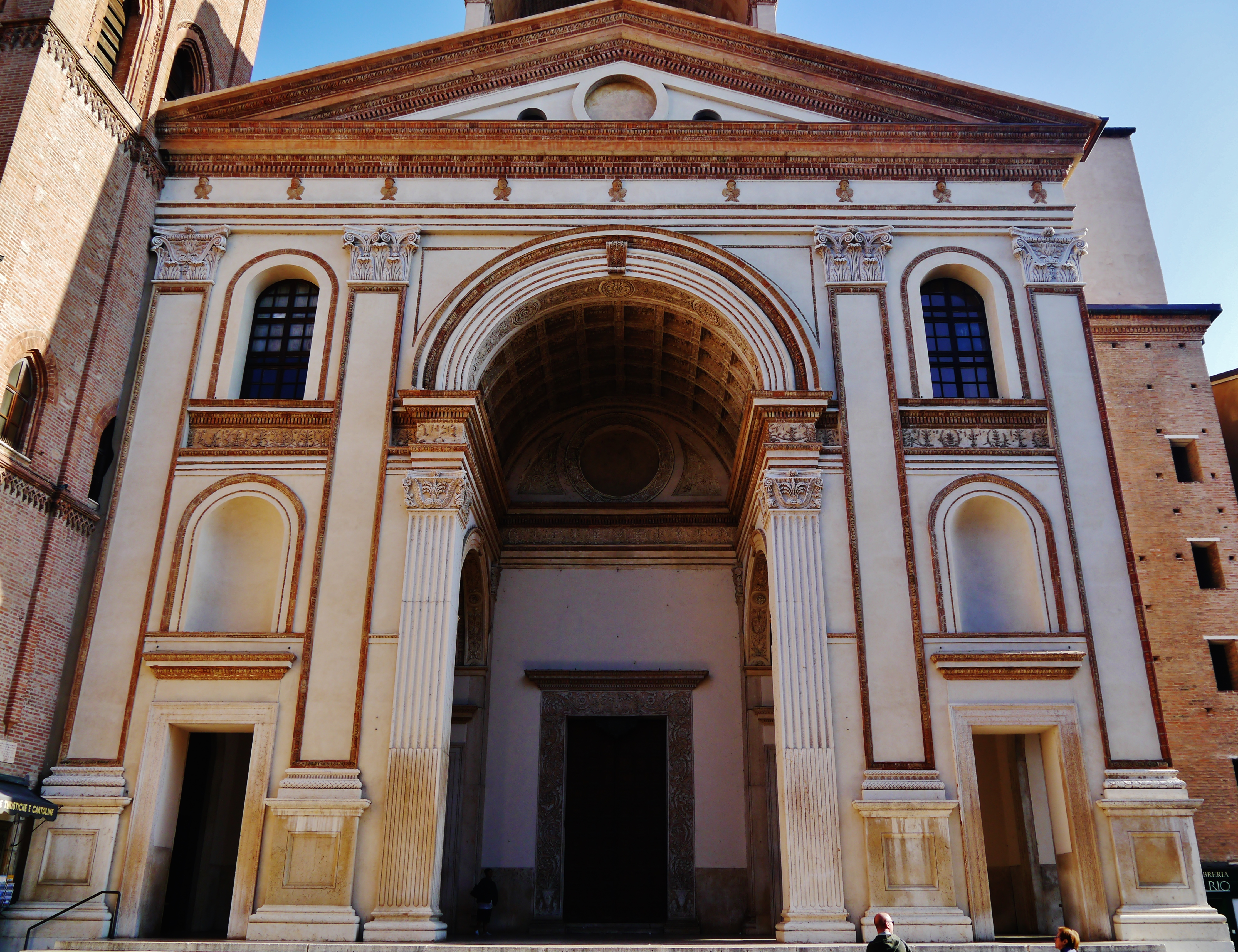 Facade of the Co-Cathedral of St. Andrew, Mantua, Province of Mantua, Region of Lombardy, Italy